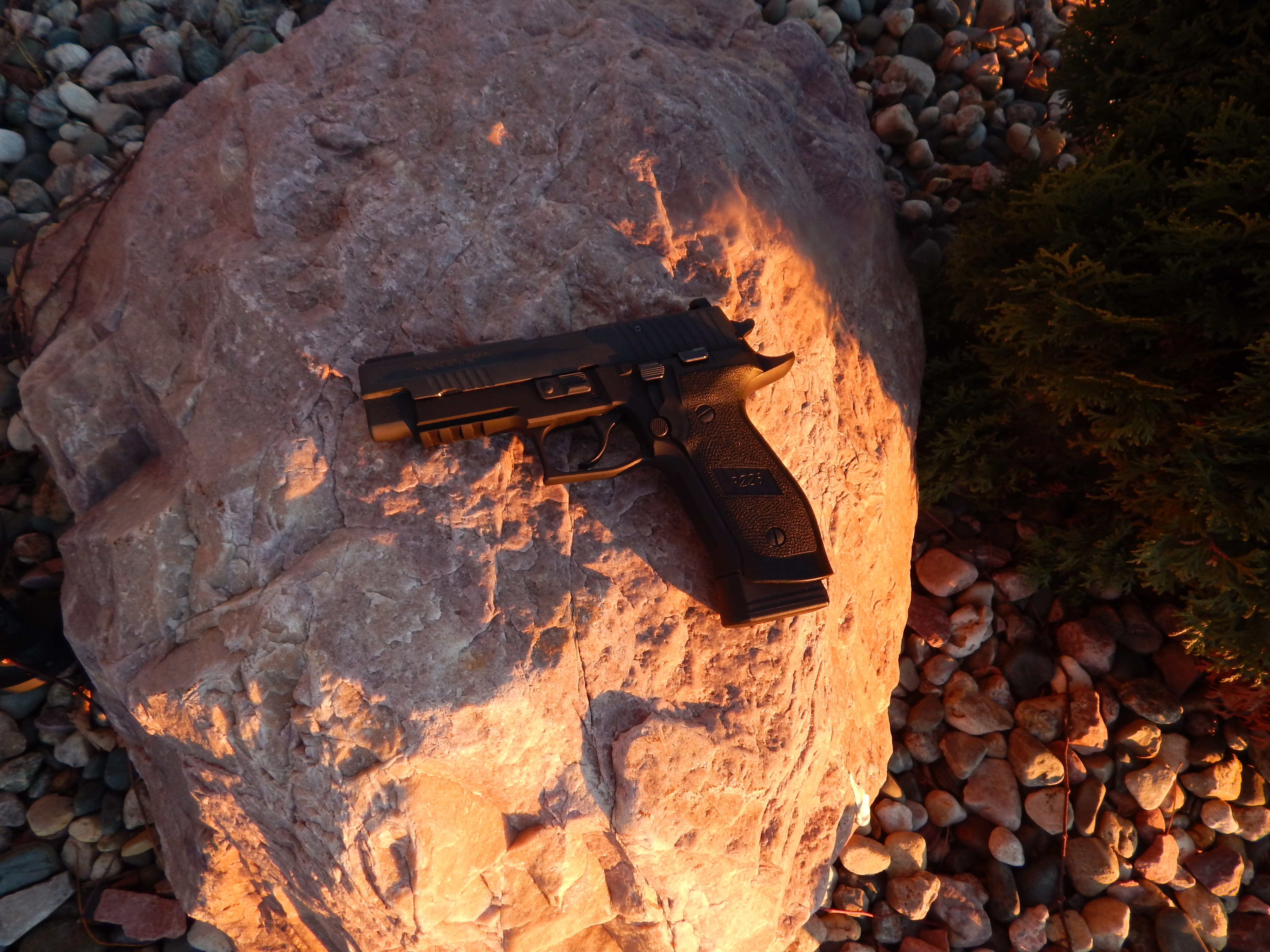 SIG-Sauer Tactical Operations (TacOps) pistol in 9x19mm. The Tactical Operations features a heavy, American-made milled stainless steel slide coated in durable Nitron finish with rear Tritium night sights, a fiber-optic front sight, accessory rail, extended beavertail and a twenty-round extended magazine. The TacOps is primarily directed towards special forces and law enforcement purposes.